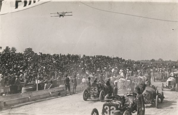 Photojournalist Fred Wagner covered the 1912 American Grand Prize automobile race in Wauwatosa, Wisconsin, from Farnum Fish's airplane. The airplane is seen here flying over the racetrack, racecars and crowd. #32 - Louis Fontaine, Lozier; #33 - Teddy Tetzlaff, Fiat; #34 - Hughie Hughes, Mercer; #36 - Spencer Wishart, Mercedes; #39 - George Clark, Mercedes